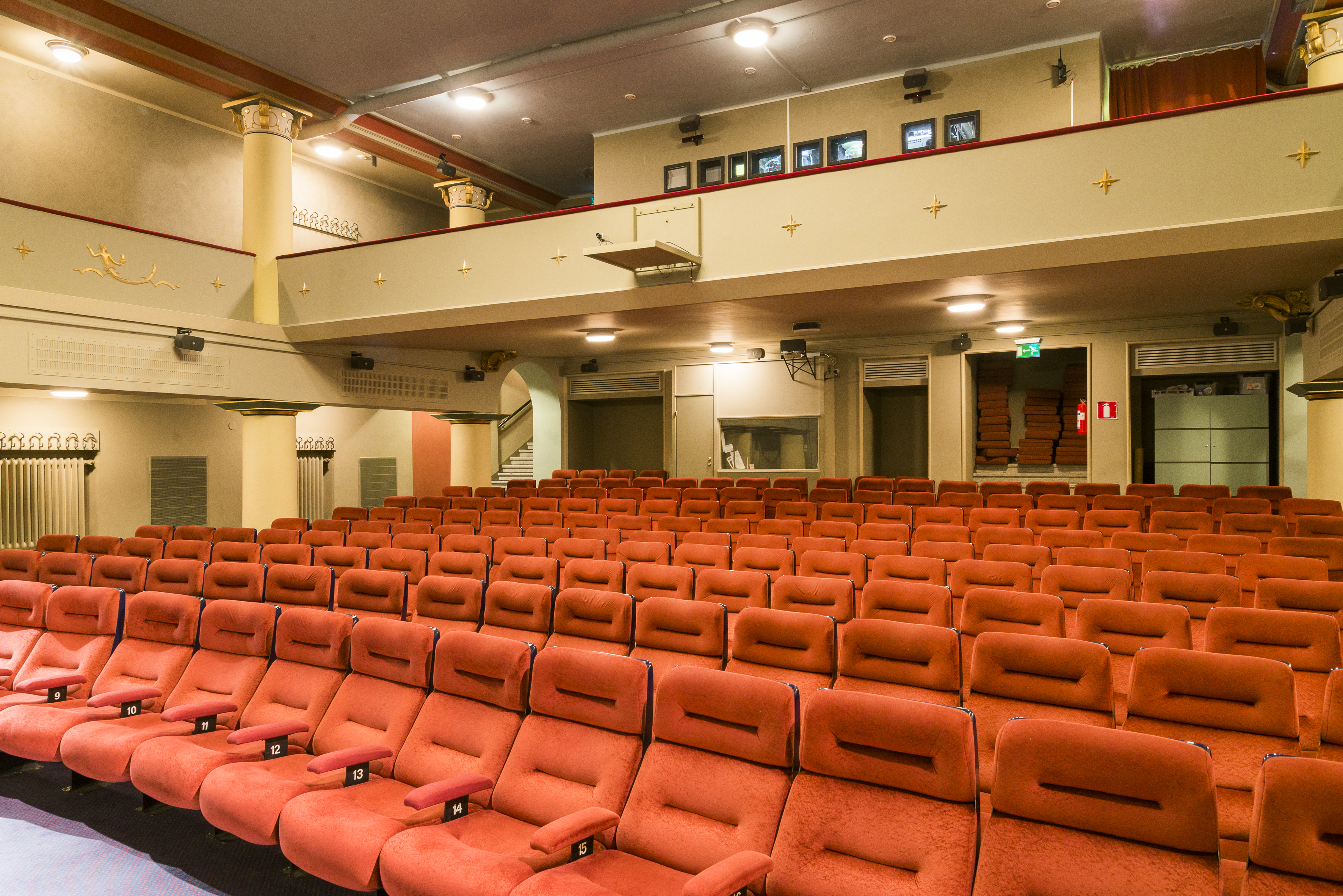 Orion movie theatre in Kamppi, Helsinki.